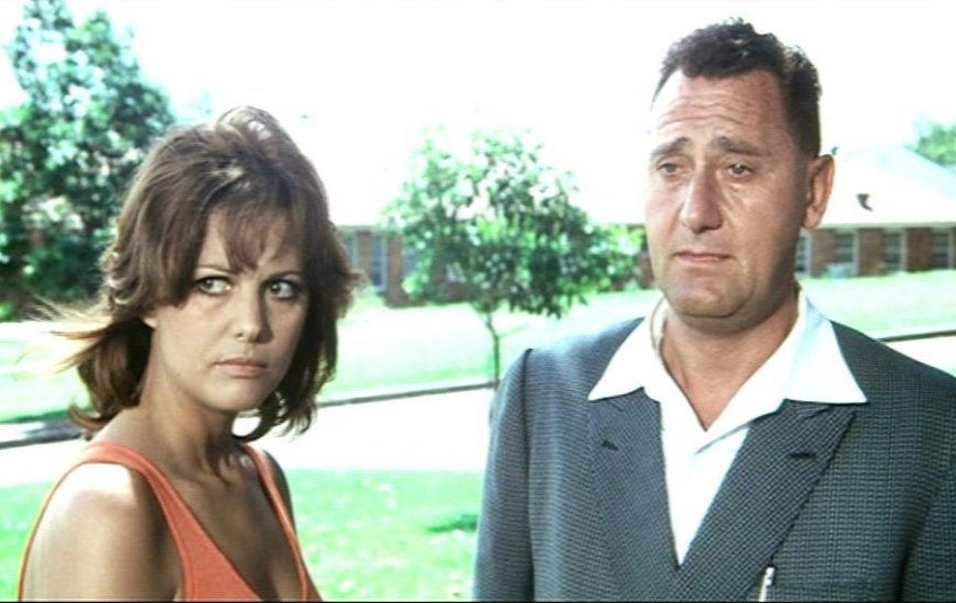 screenshot from the Italian film Bello, onesto, emigrato Australia sposerebbe compaesana illibata (1971)